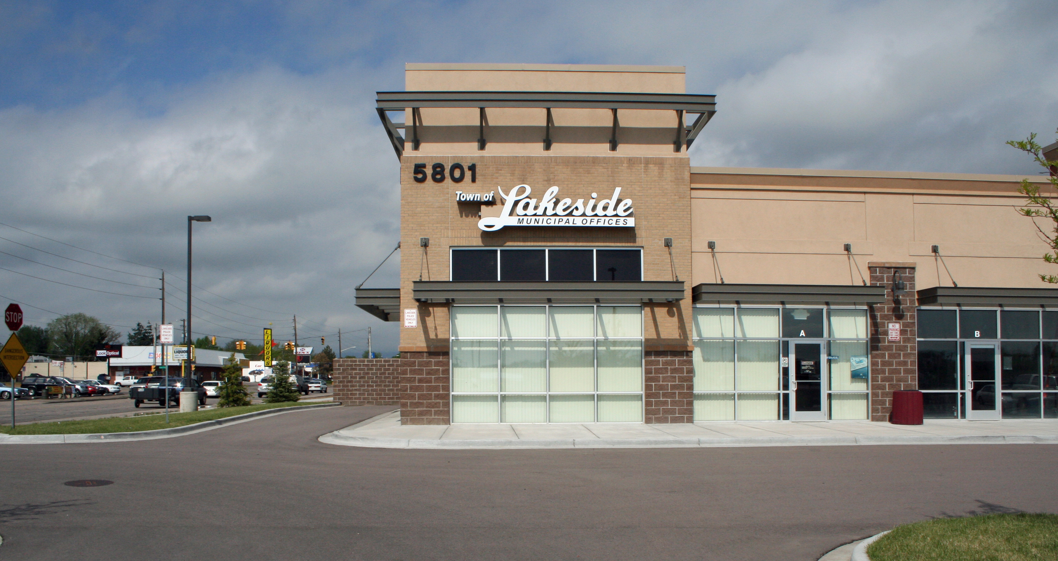 The Lakeside, Colorado Town Hall